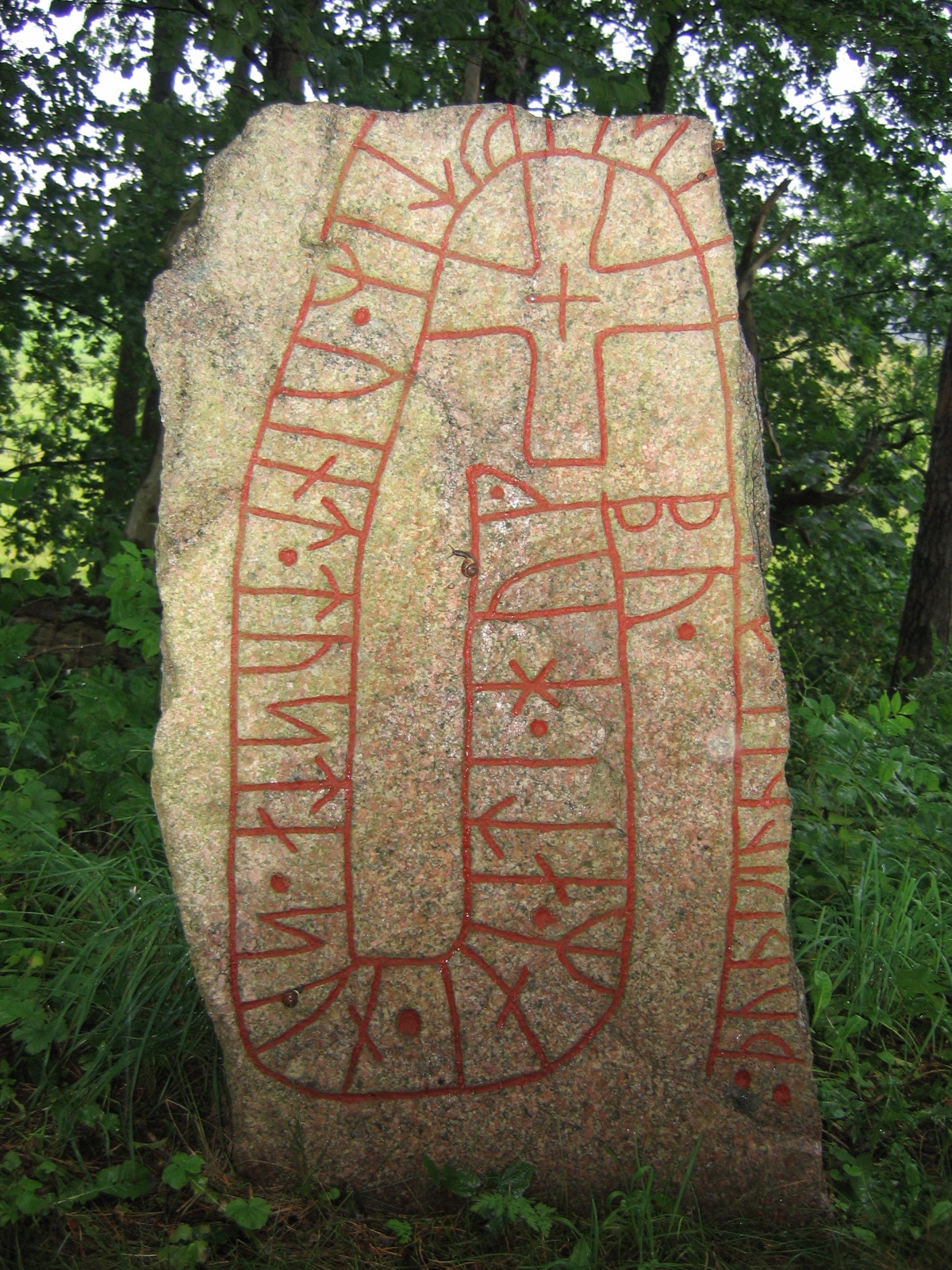 Runestone Ög 82 in Högby, Mjölby municipality, Östergötland.